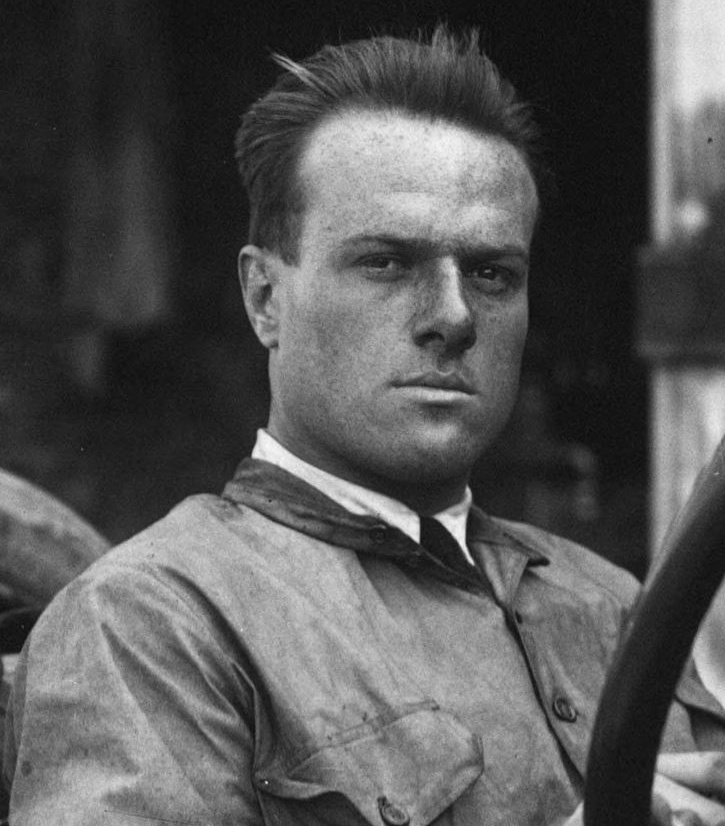 David Bruce-Brown in his Fiat at the 1912 French Grand Prix at Dieppe.